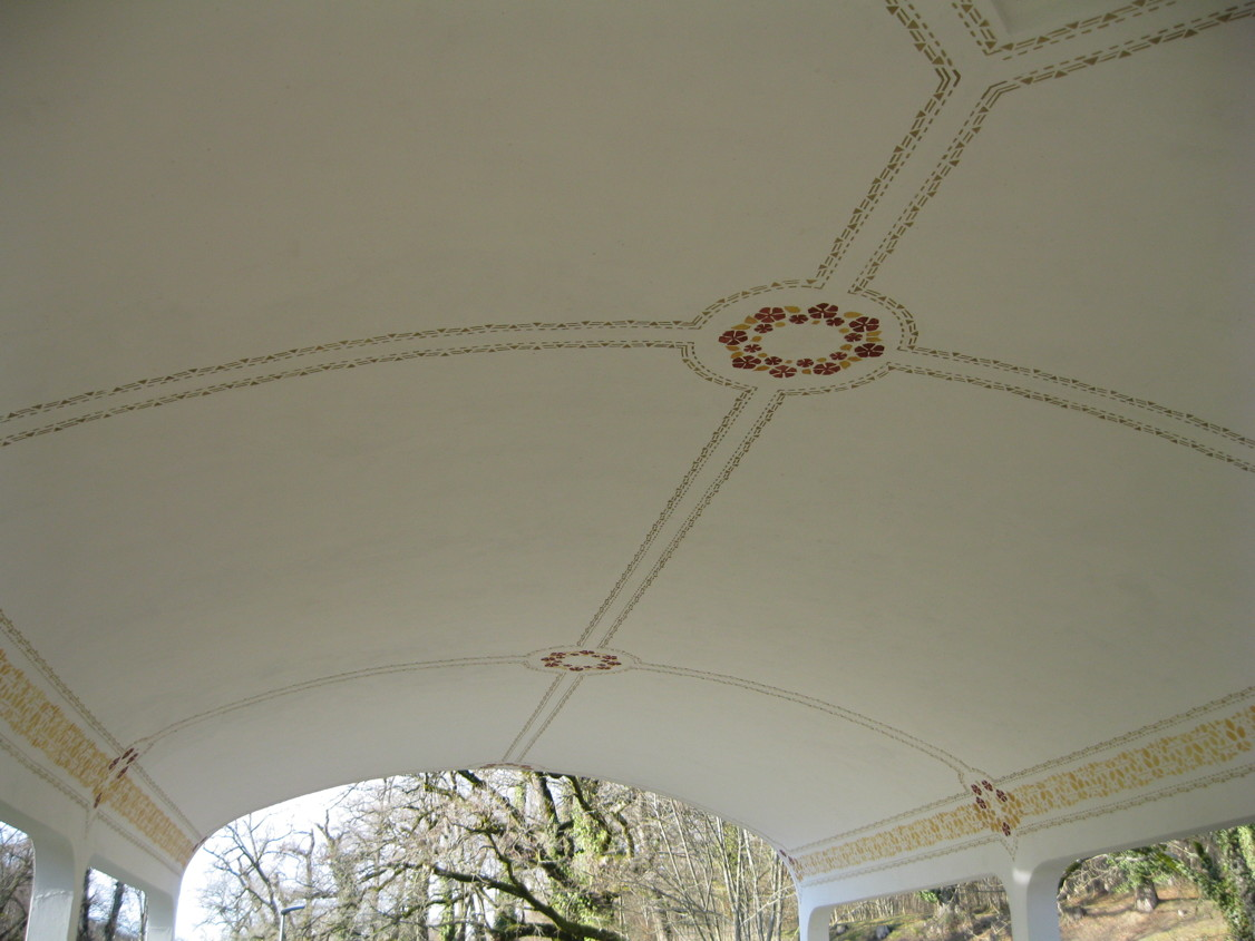 View of the restored ceiling of the water building near Salmière spring in the village Alvignac (Lot, France